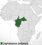 Peters's duiker distribution